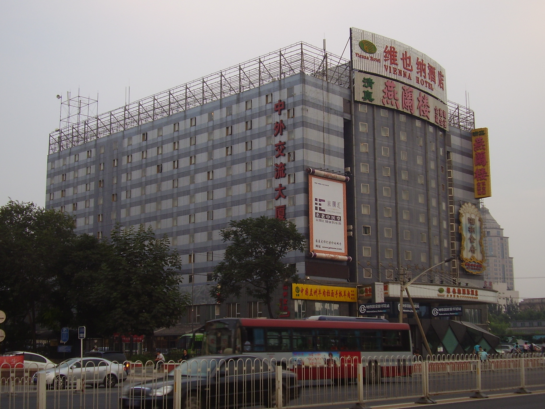 Zhongwai Jiaolu Building (S: 中外交流大厦, T: 中外交流大廈, P: Zhōngwài Jiāoliú Dàshà "Chinese and Foreign Exchange Building") - Includes the Vienna Hotel Beijing Shouti Hotel (S: 维也纳酒店, T: 維也納酒店, P: Wéiyěnà Jiǔdiàn) - No.52 South Main Street (Zhongguancun Nan Dajie), Zhongguancun, Haidian District, Beijing 100080